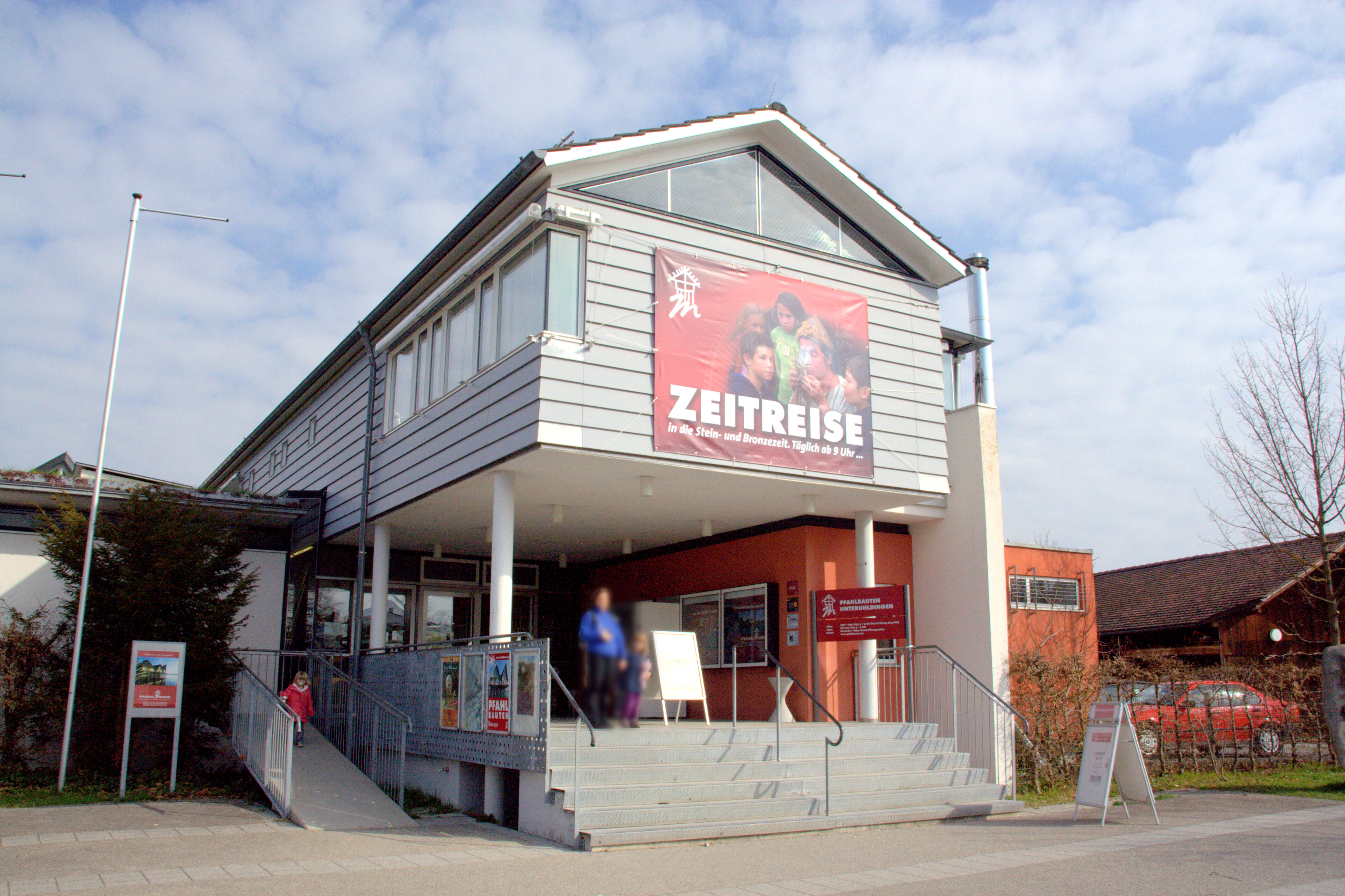 Entrance of the Pfahlbau Museum Unteruhldingen, Germany